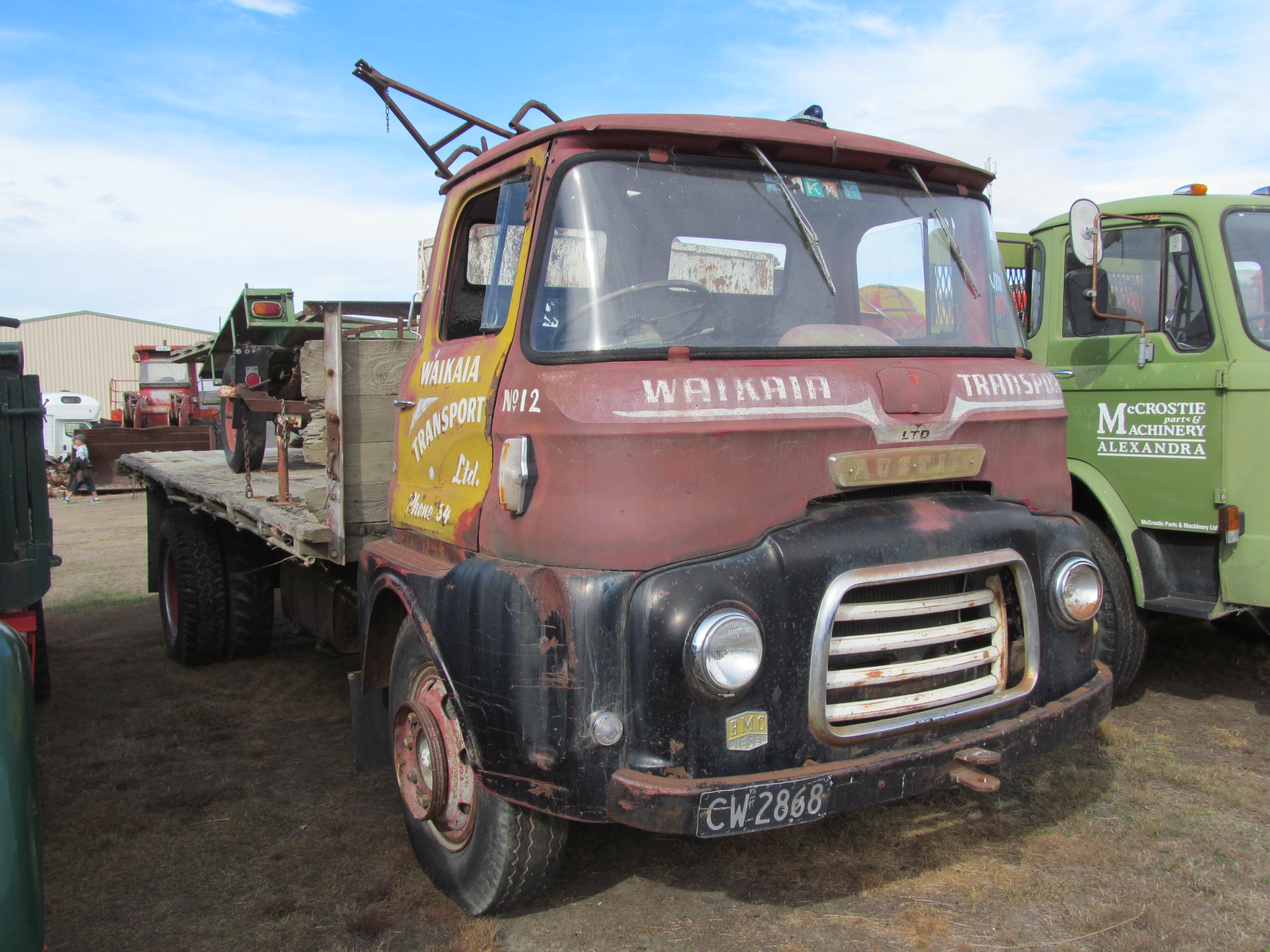 Another rare and unusual old Brit truck. I can tell this is an FH as opposed to the identical FF as it has a six-cylinder BMC diesel engine - the FH had a rejigged floorpan to accommodate this engine. Originally operated by Waikaia Transport at Waikaia, Southland.